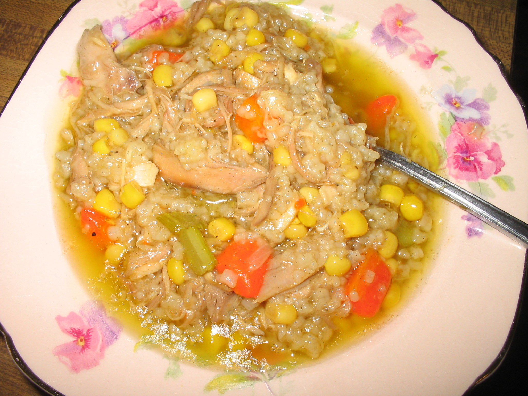 Turkey Soup With Rice Prep time: 10 minutes Cook time: 3 hours 15 minutes Yield: 6 servings See [1] for recipe.Turkey Soup/Stew With Rice